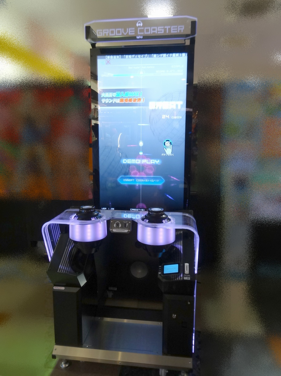 TAITO - GROOVE COASTER Arcade Version.